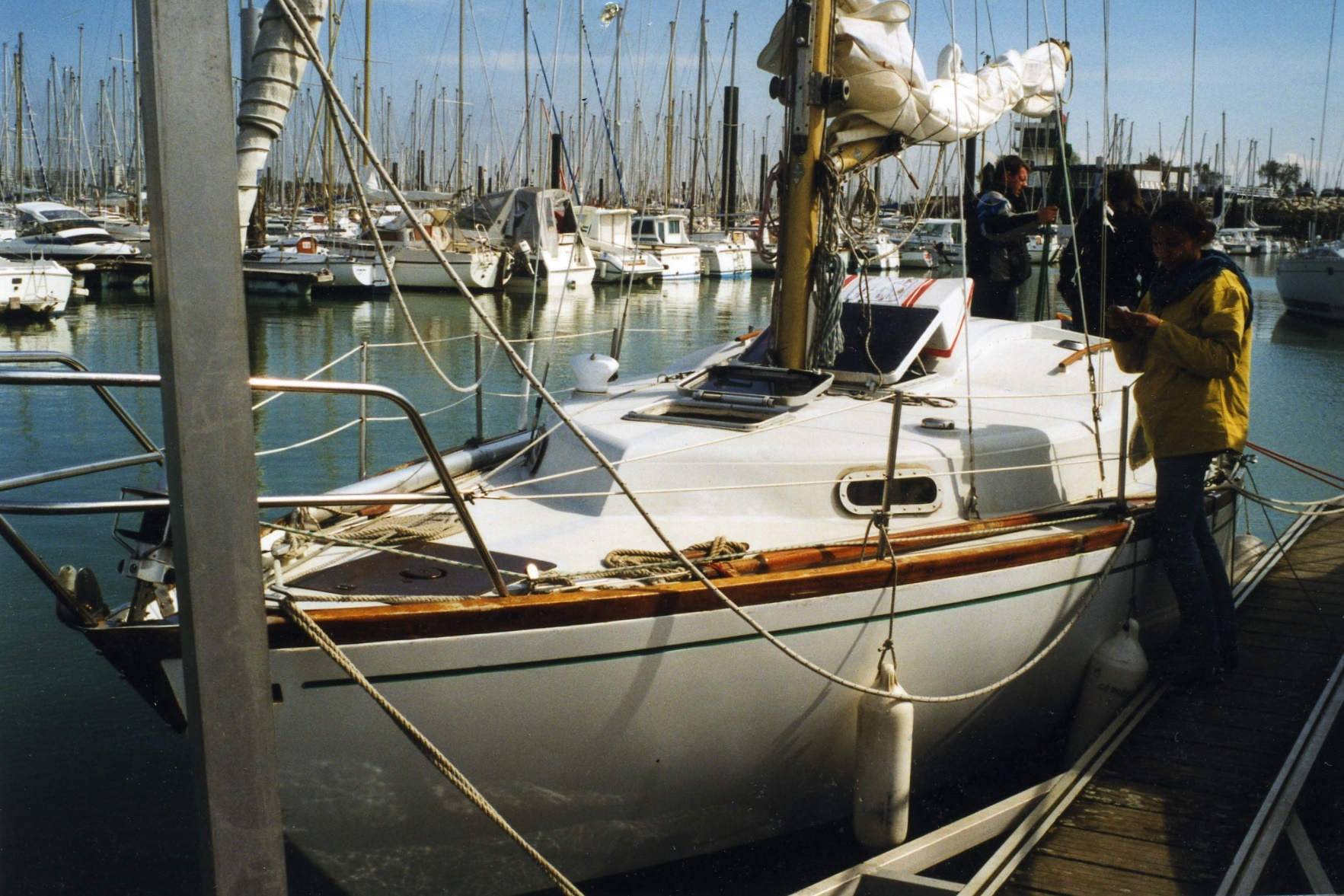 Arpège sailboat in Les Minimes harbour, La Rochelle